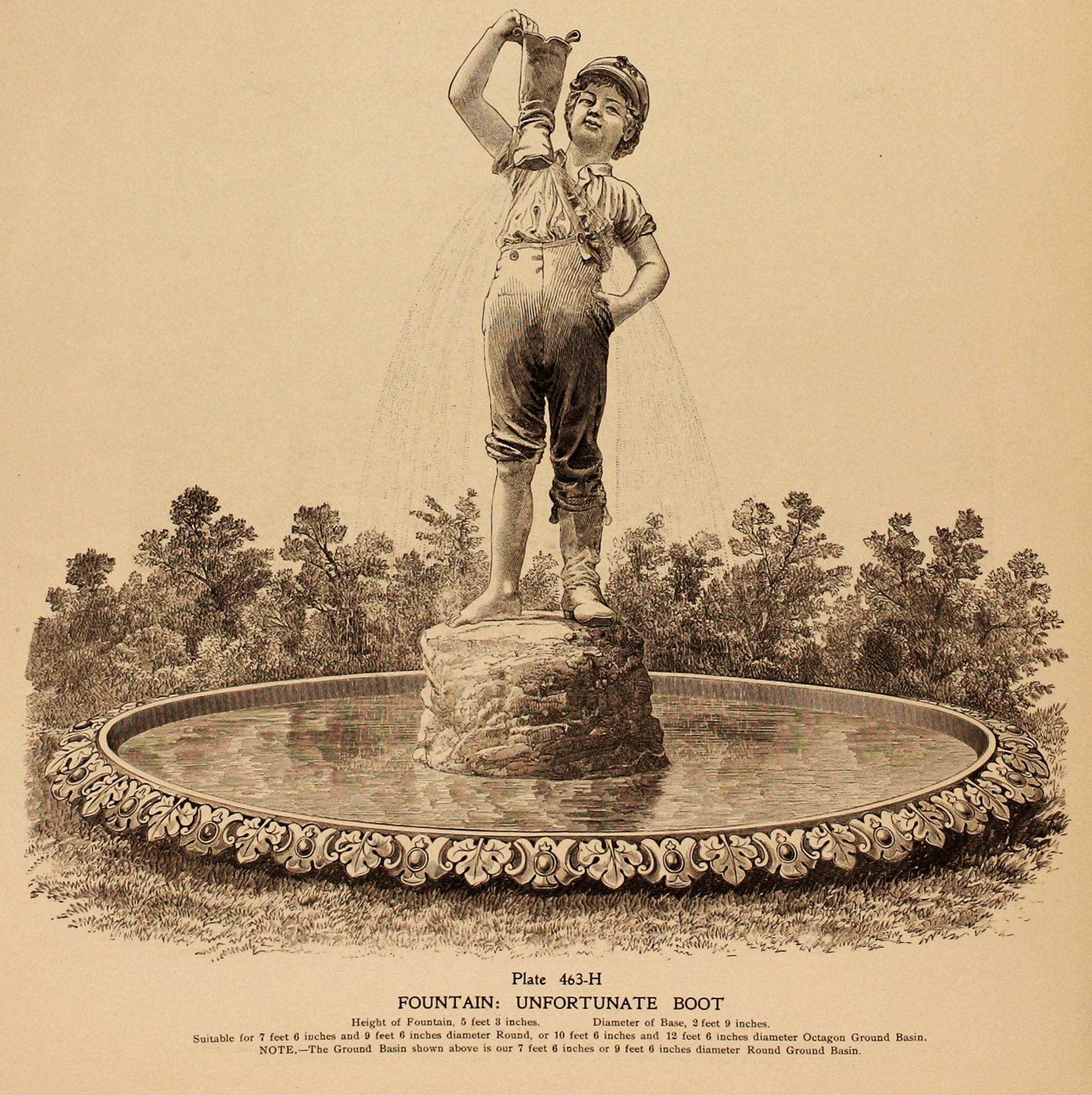 Original 1925 J.L. Mott's catalog print of the fountain "Unfortunate Boot" Fountains H, Section I, Illustation 463-H, page 106.